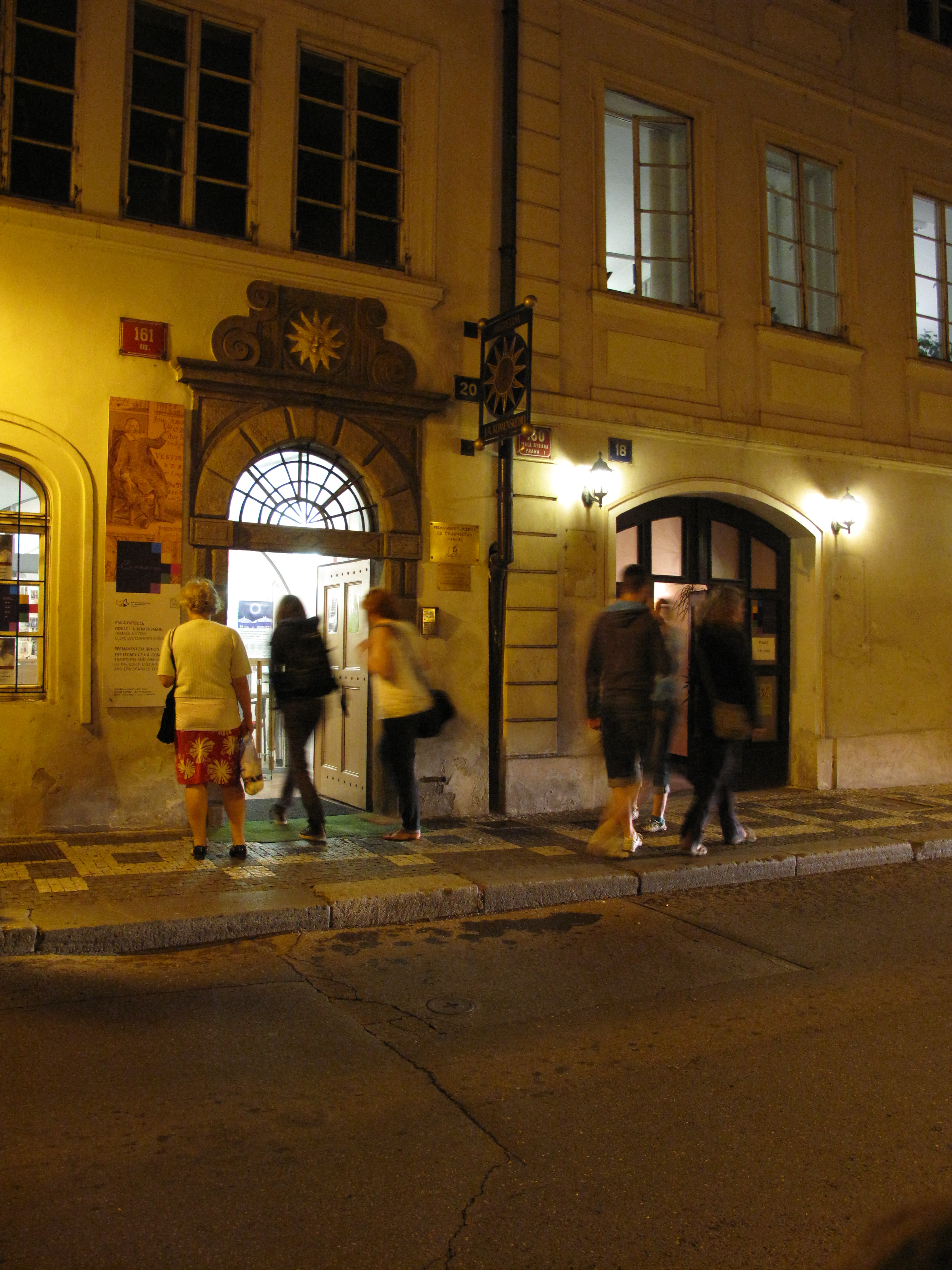 Entrance of the Pedagogical museum of J. A. Comenius in Prague during Night of Museums 2010, Prague, Czech Republic.